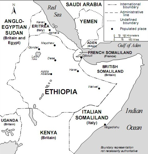 Horn of Africa and Southwest Arabia in the mid 1930s, prior to the Italian invasion of Abyssinia